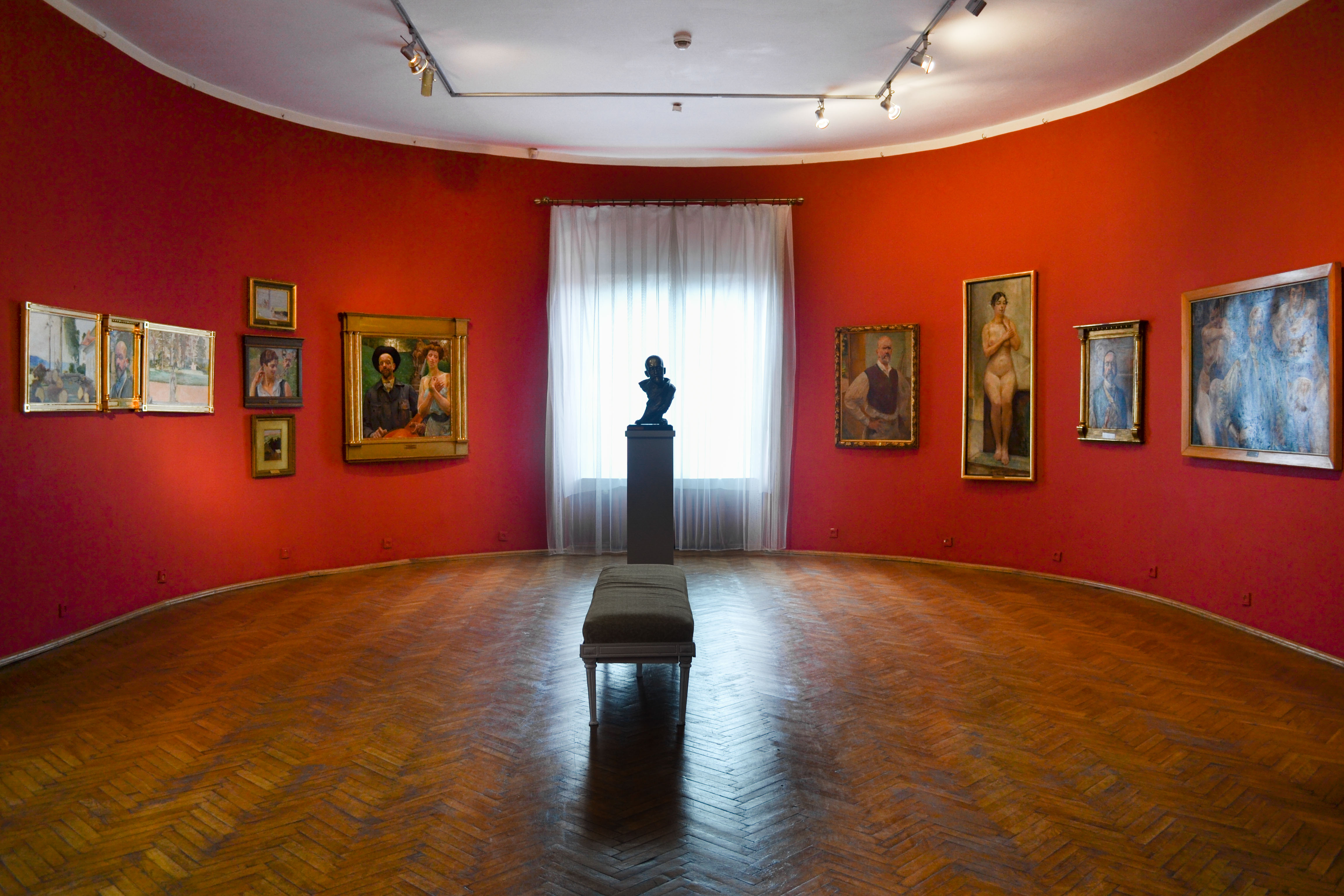 Collection of Jacek Malczewski Paintings, Jacek Malczewski Museum in Radom, Poland